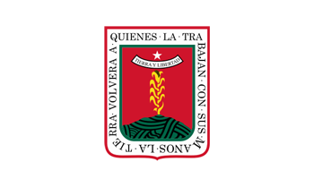 Flag of the State of Morelos, Mexico.